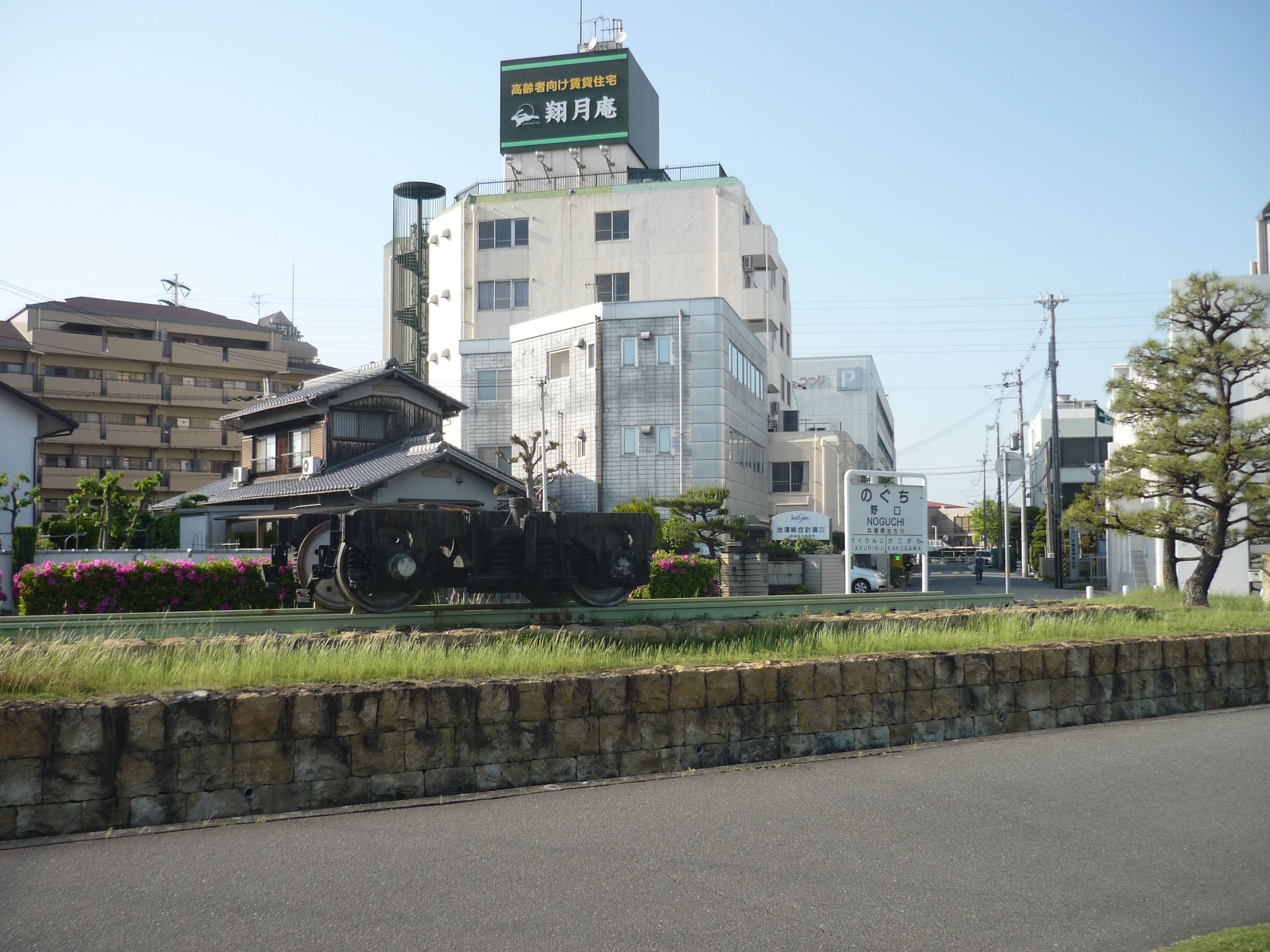 The remains of the former Noguchi Station (closed 1984) in Kakogawa, Hyogo, Japan